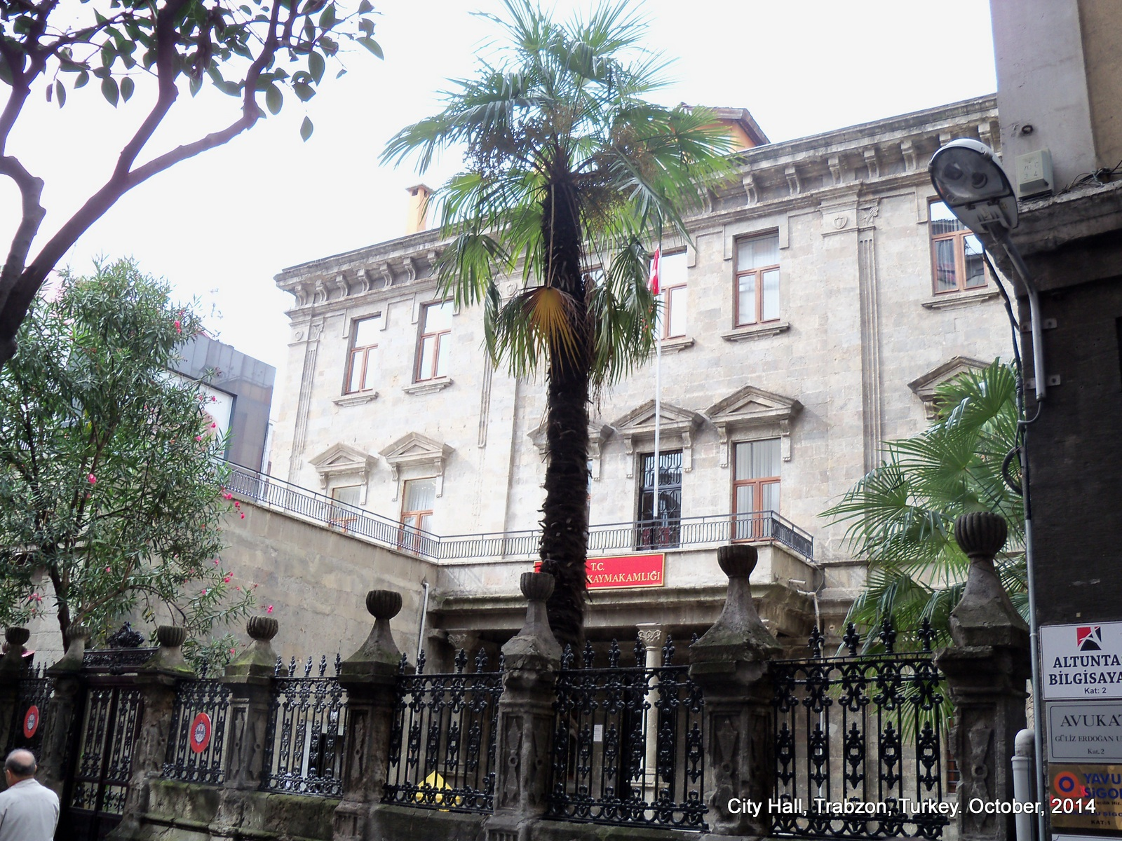 The office of Ortahisar governor, Trabzon, Turkey.